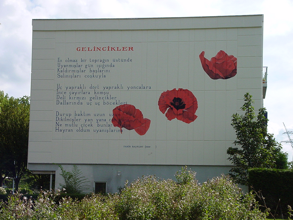 Wallpoem in de city of Leiden in the Netherlands.